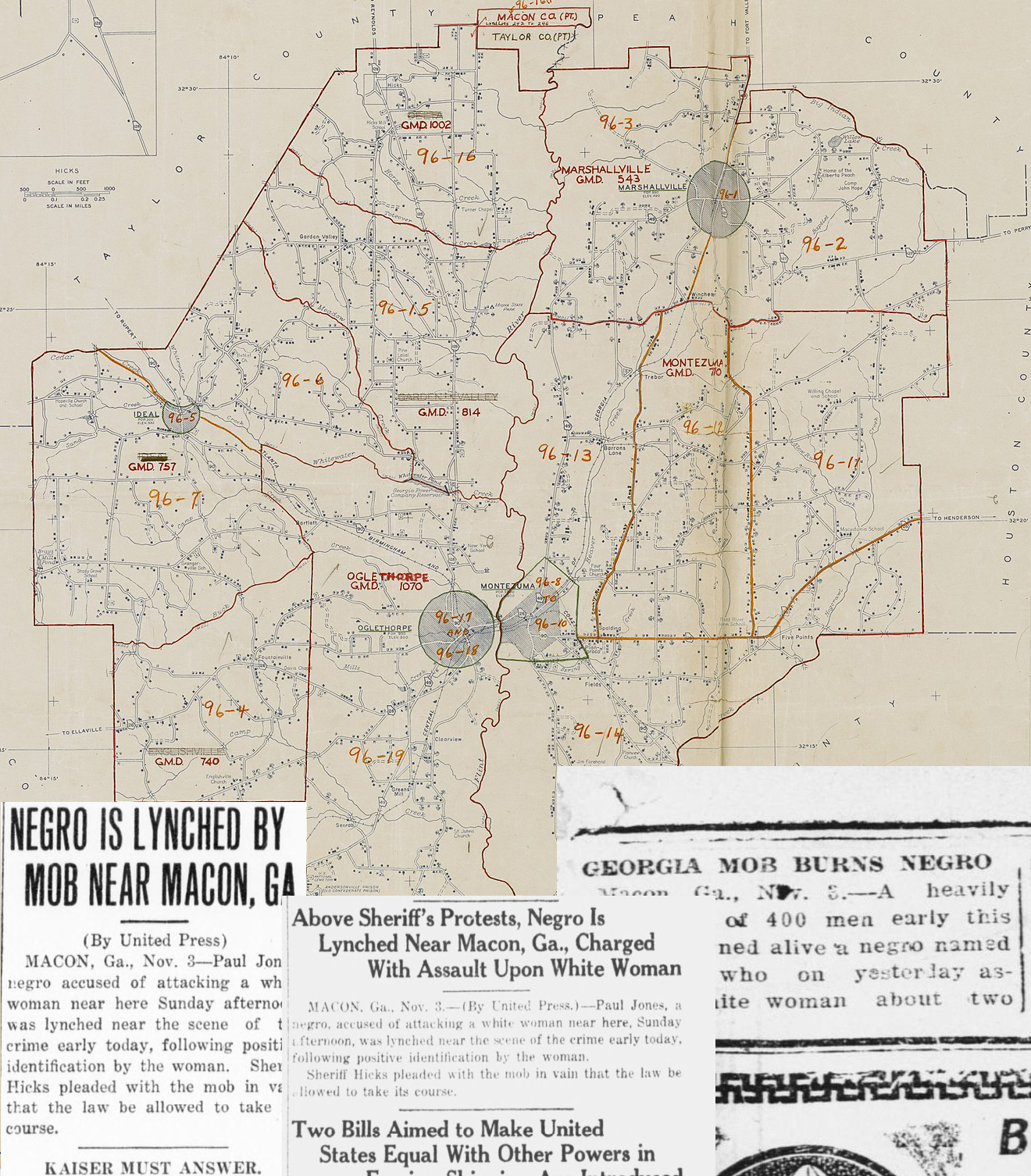 Paul Jones was lynched after being accused of attacking a white woman in Macon, Georgia